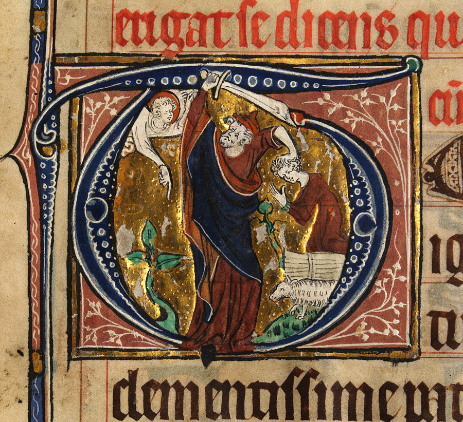 This beautiful Missal made from parchment originates from East Anglia. It is considered a very important manuscript as it is one of the earliest examples of a Missal of an English source. Sarum Missals were books produced by the Church during the Middle Ages for celebrating Mass throughout the year